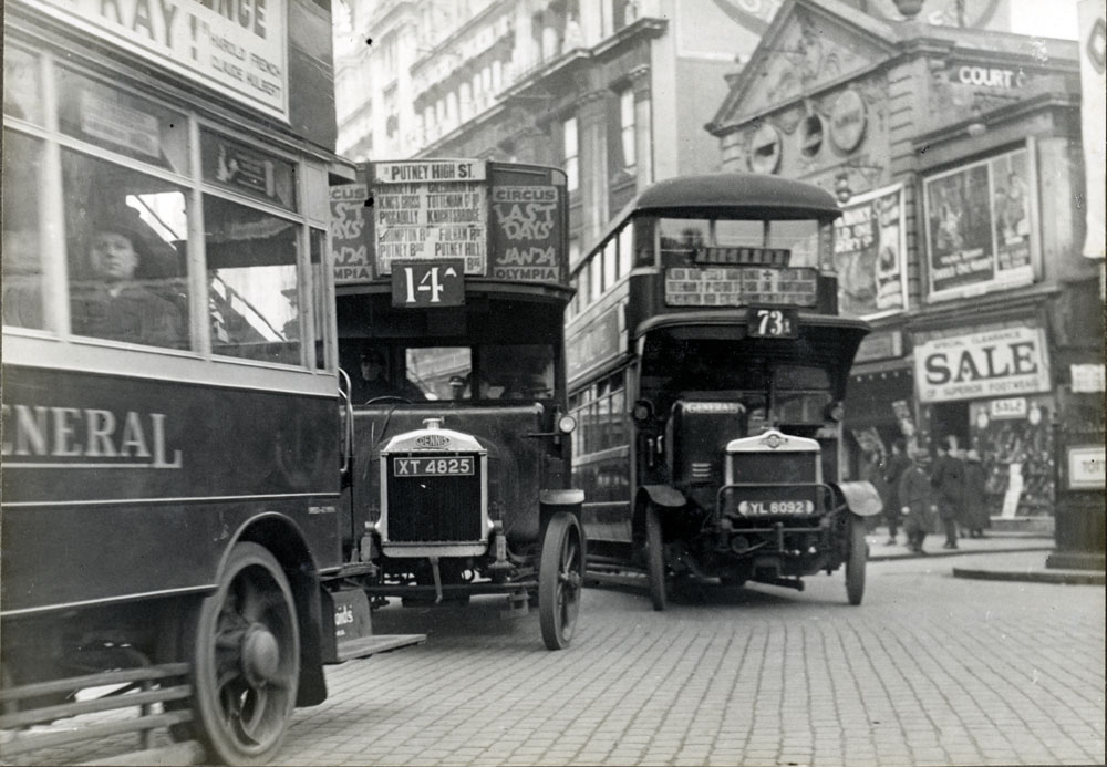 Double-decker buses in London, in Tottenham Court Road at the junction with Oxford Street/New Oxford Street. Dissapearing out of view on the left is a bus of the London General Omnibus Company, an AEC K-Type, while on the right is another LGOC bus, an AEC NS-Type (reg. YL 8092) operating route 73. In the middle is a Dennis bus (reg. XT 4825) operating route 14, possibly belonging to LGOC or one of the independents that existed at the time.